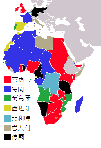 Africa_colonization_1914